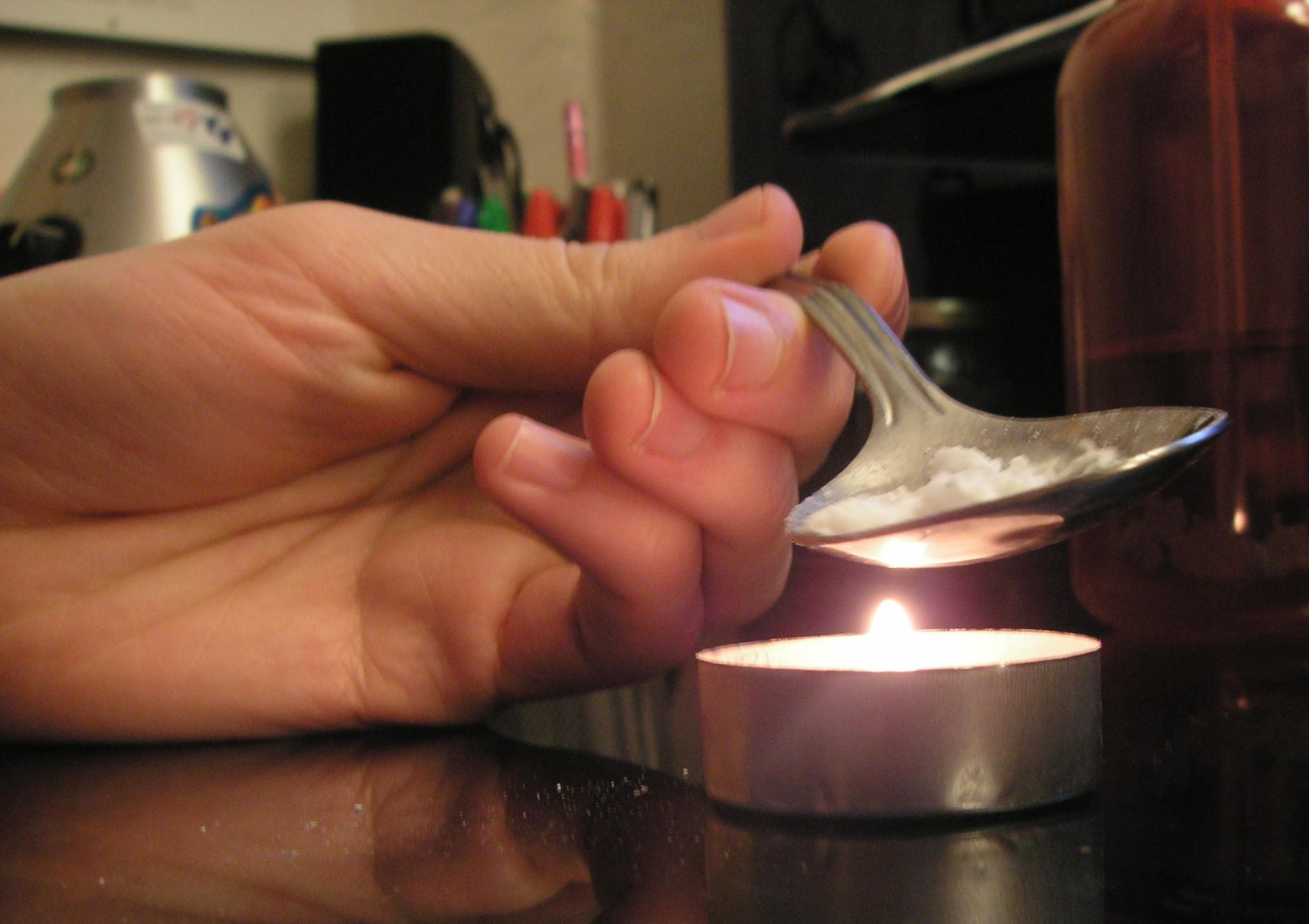 Cookin Crack to Enhance the effects of doing lines